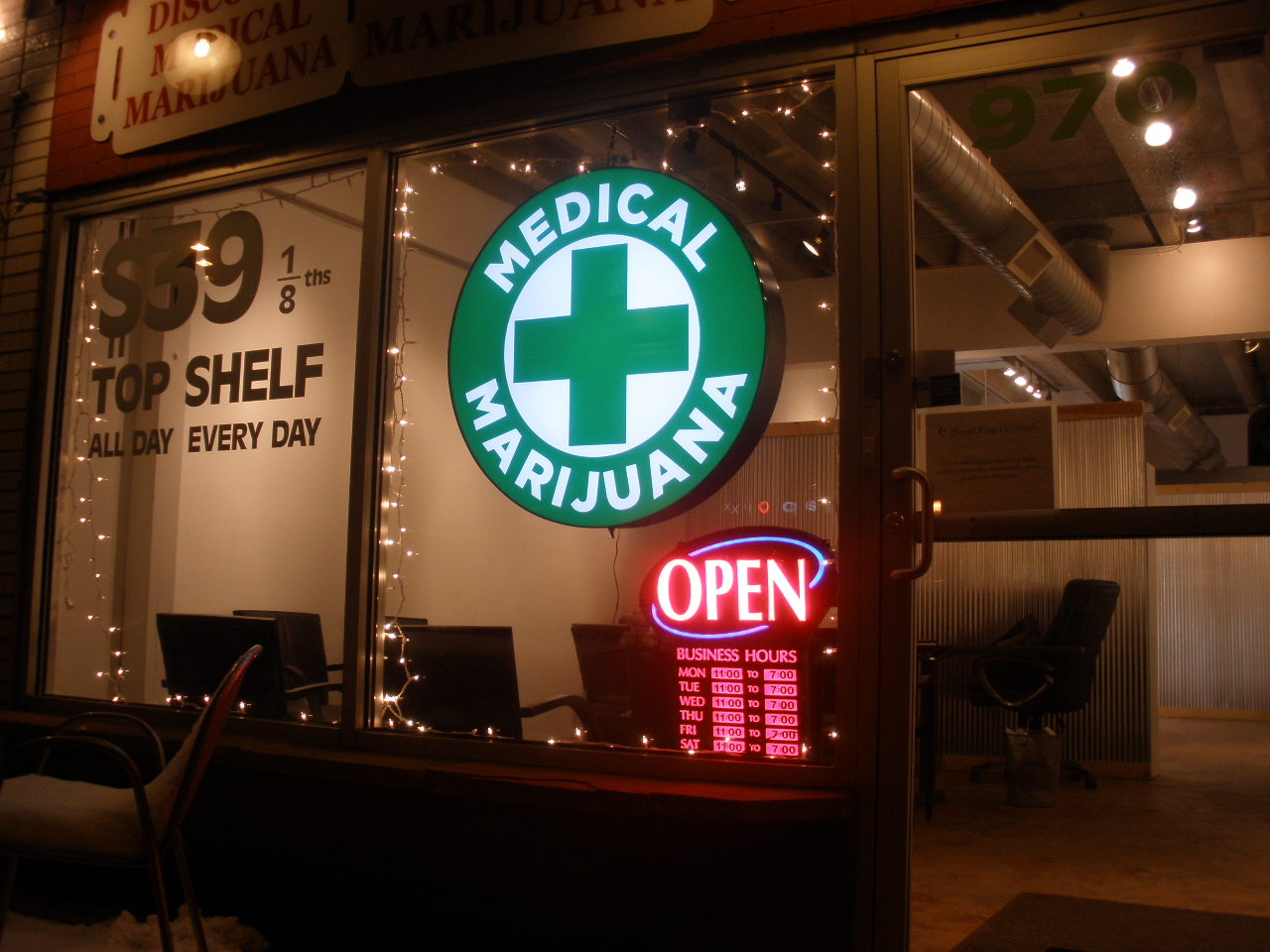 Discount Medical Marijuana cannabis shop at 970 Lincoln Street, Denver, Colorado.